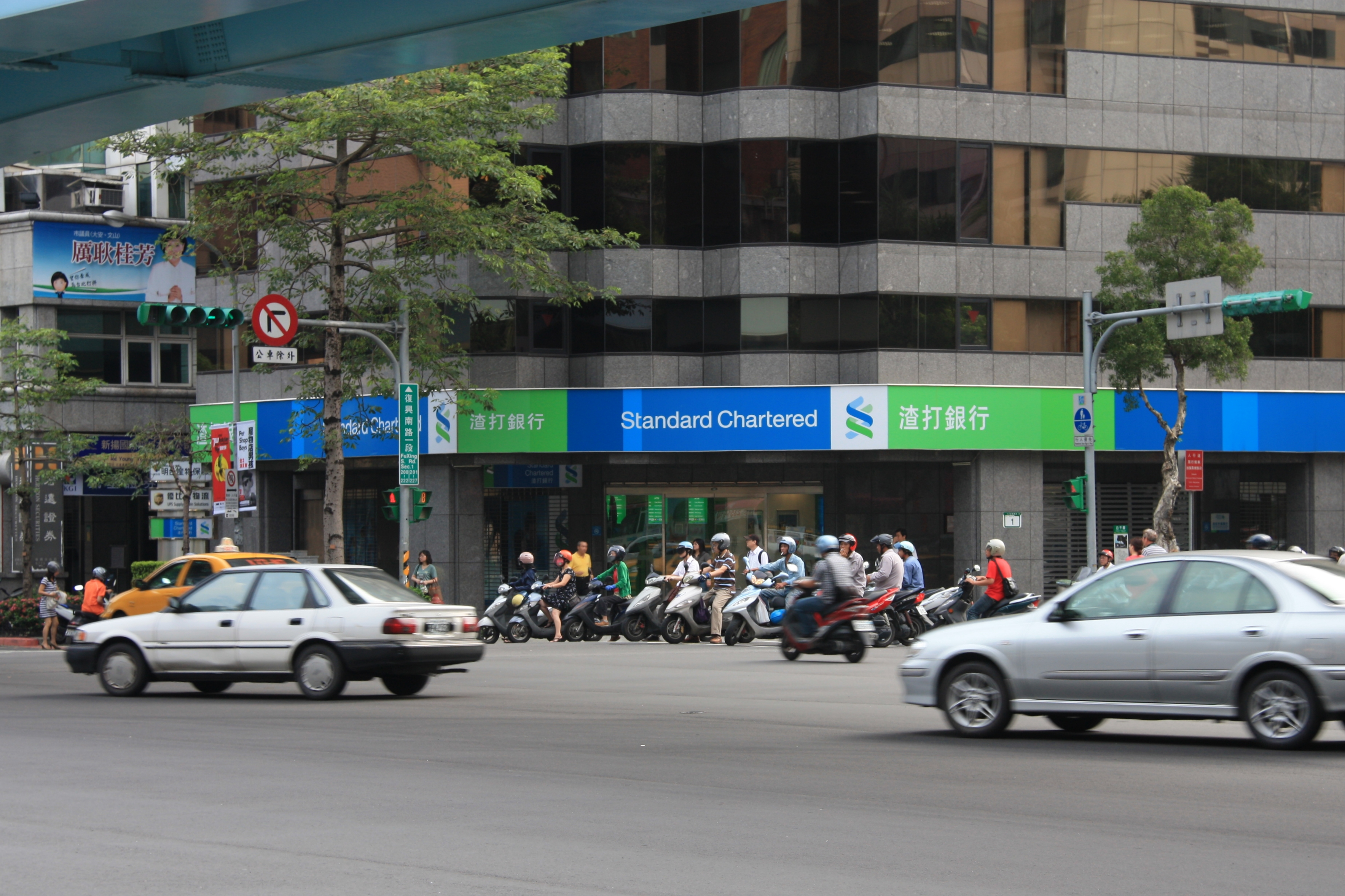 Ren'ai Branch, Standard Chartered Bank (Taiwan) Limited. Located in Mingtai Insurance headquarters 1F.